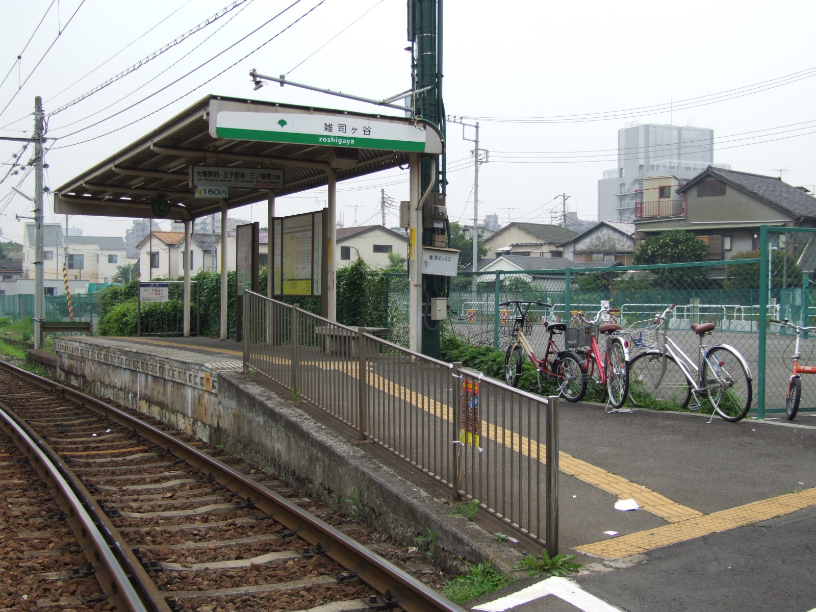 Toden-Zōshigaya Stop,Tokyo Toden,Tokyo Metropolitan Government Bureau of Transportation,Japan